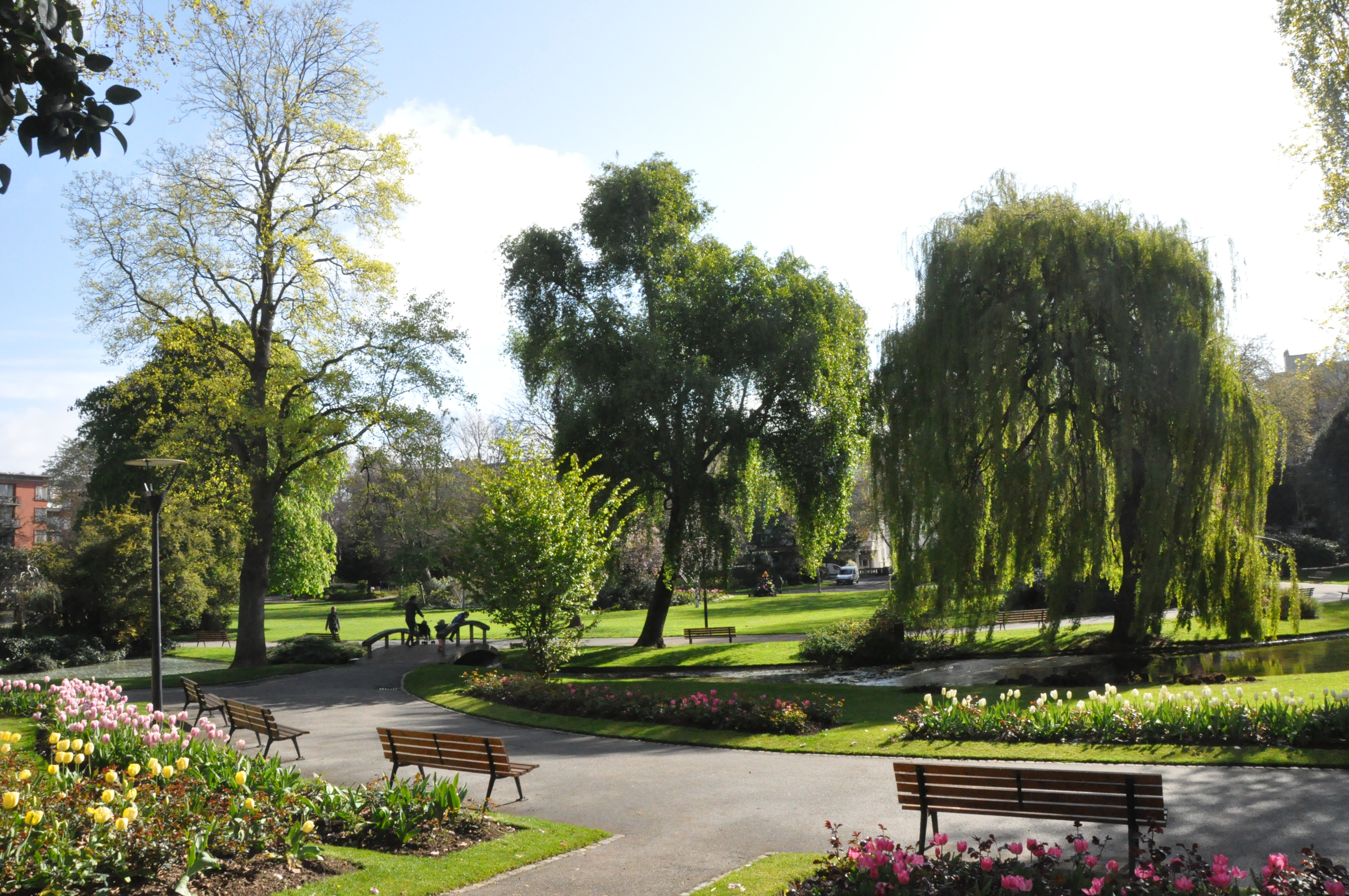 Garden Saint-Roch in Le Havre (Seine-Maritime, Haute-Normandie, France).